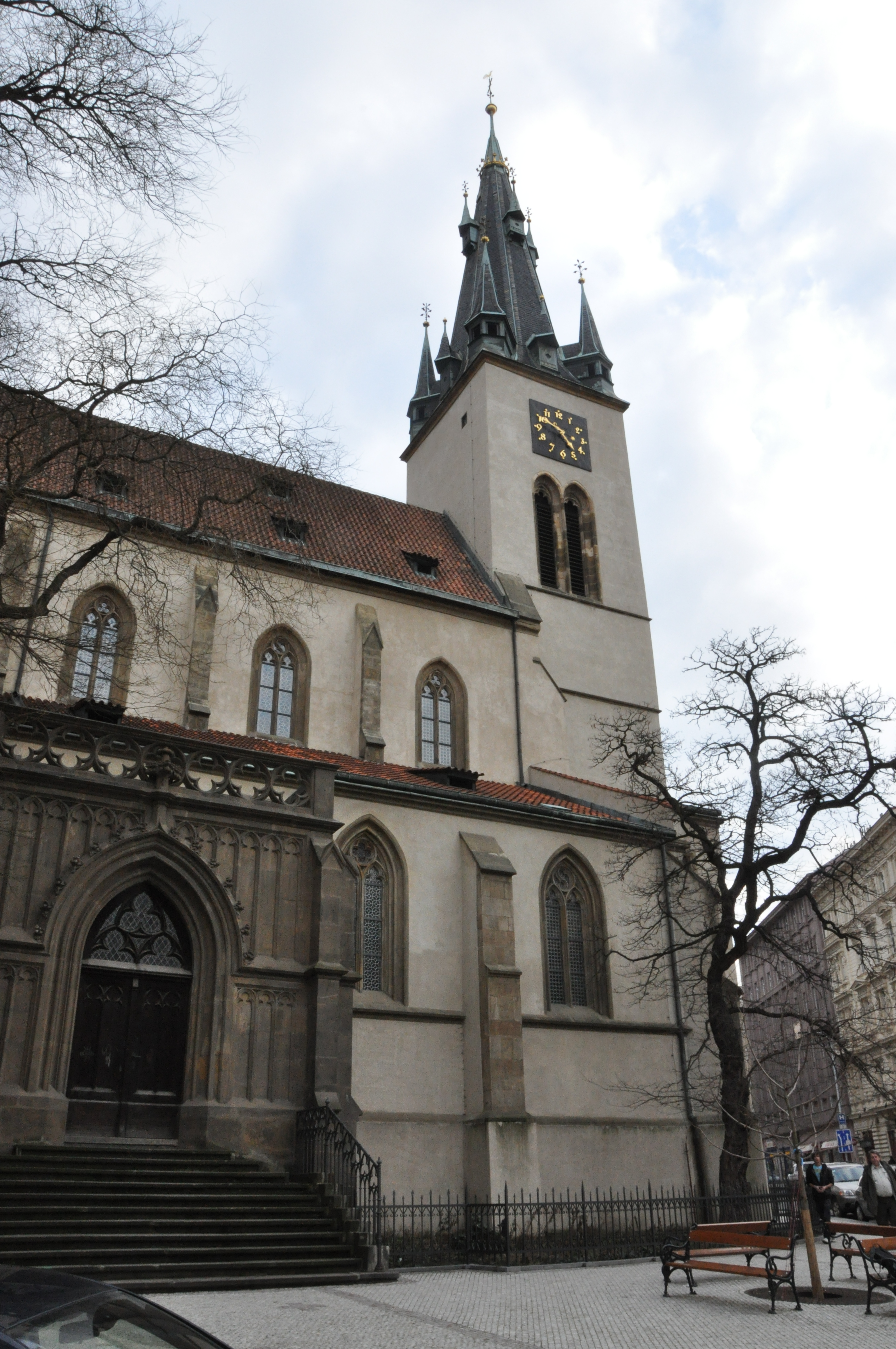 Church of St Stephen in Nové Město, Prague, Czech Republic.